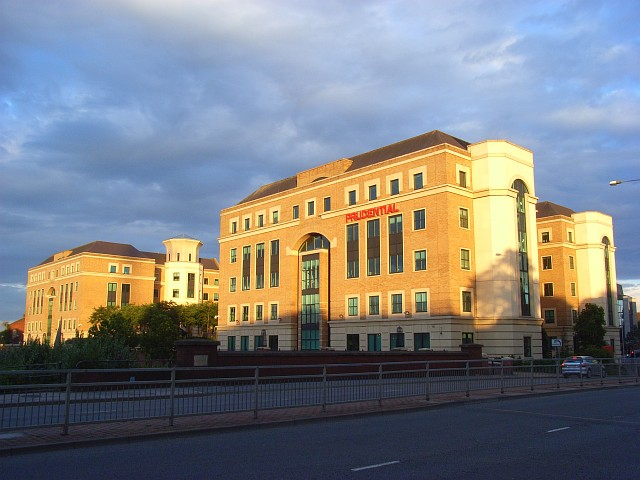 The River Kennet frontage of the Prudential offices at 121 King's Road in Reading. For more information see the Wikipedia articles Reading, Berkshire and Prudential plc.